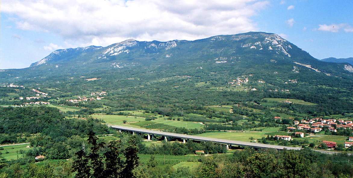 Trnovski gozd (1495 m) view from Vipavski Kriz (Slovenia)